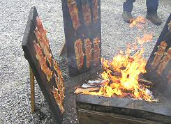 This is the normal method for cooking the American shad: the meat is seasoned with spices and salt pork and then put on wooden planks to be grilled for about 40 minutes and served to the public.